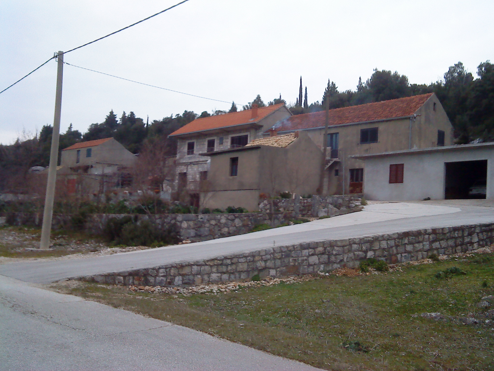 Pelješka Dubrava